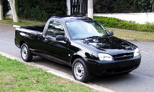 it's a Ford Courier Small Picture